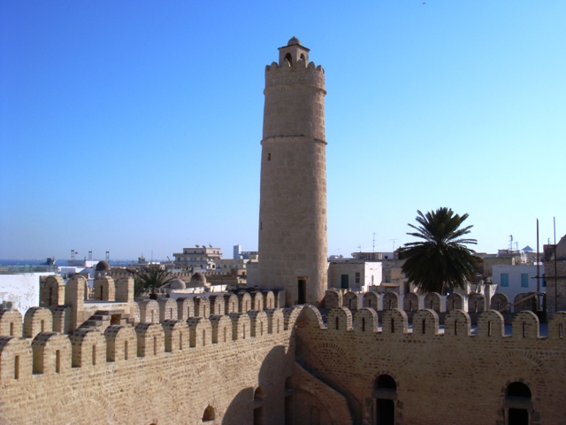 Ribat